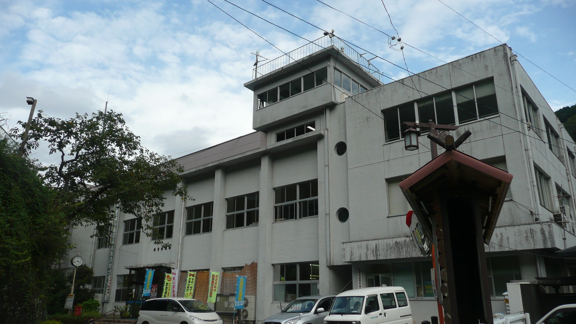 Shiiba Village Hall on October, 2008 (Miyazaki, Japan).